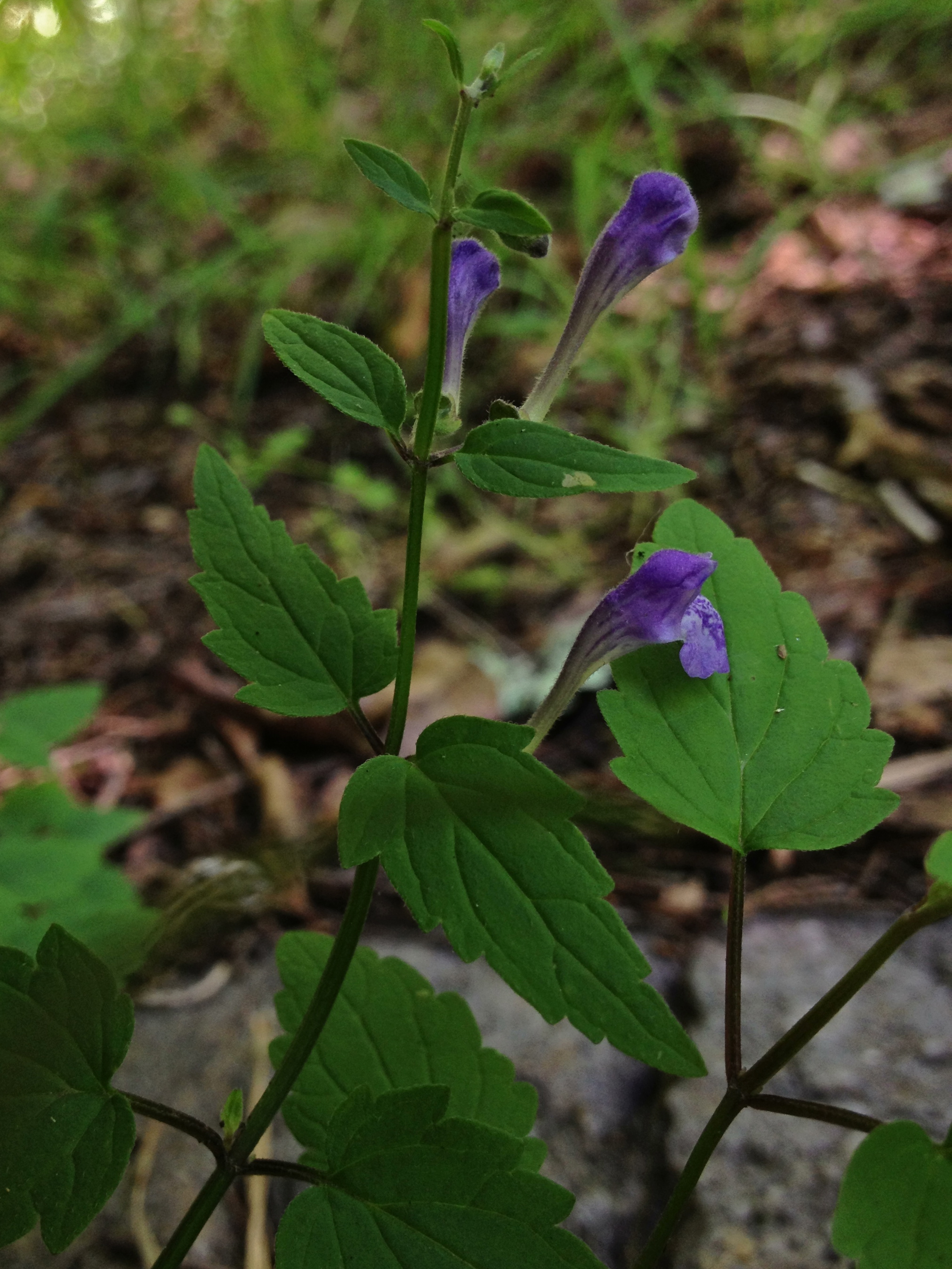 Photo of Scutellaria saxatilis in flower. This is a native plant growing wild in the C & O Canal National Historical Park, Montgomery county Maryland, USA. This species is a member of the Lamiaceae family.